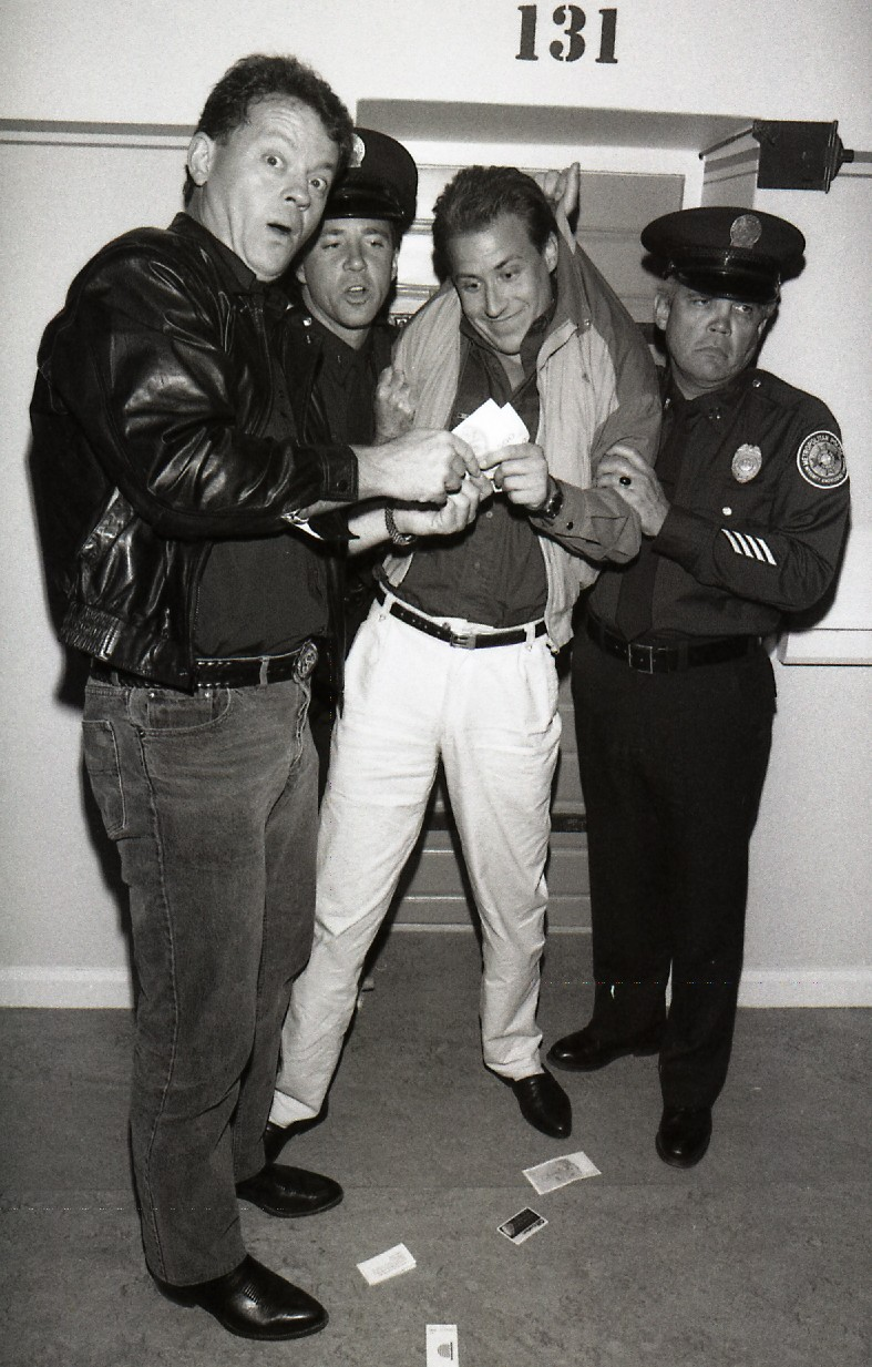 Mikael Beckman, aka 'Mike Beck', surrounded and "busted" while doin' an interview about "Police Academy 6"